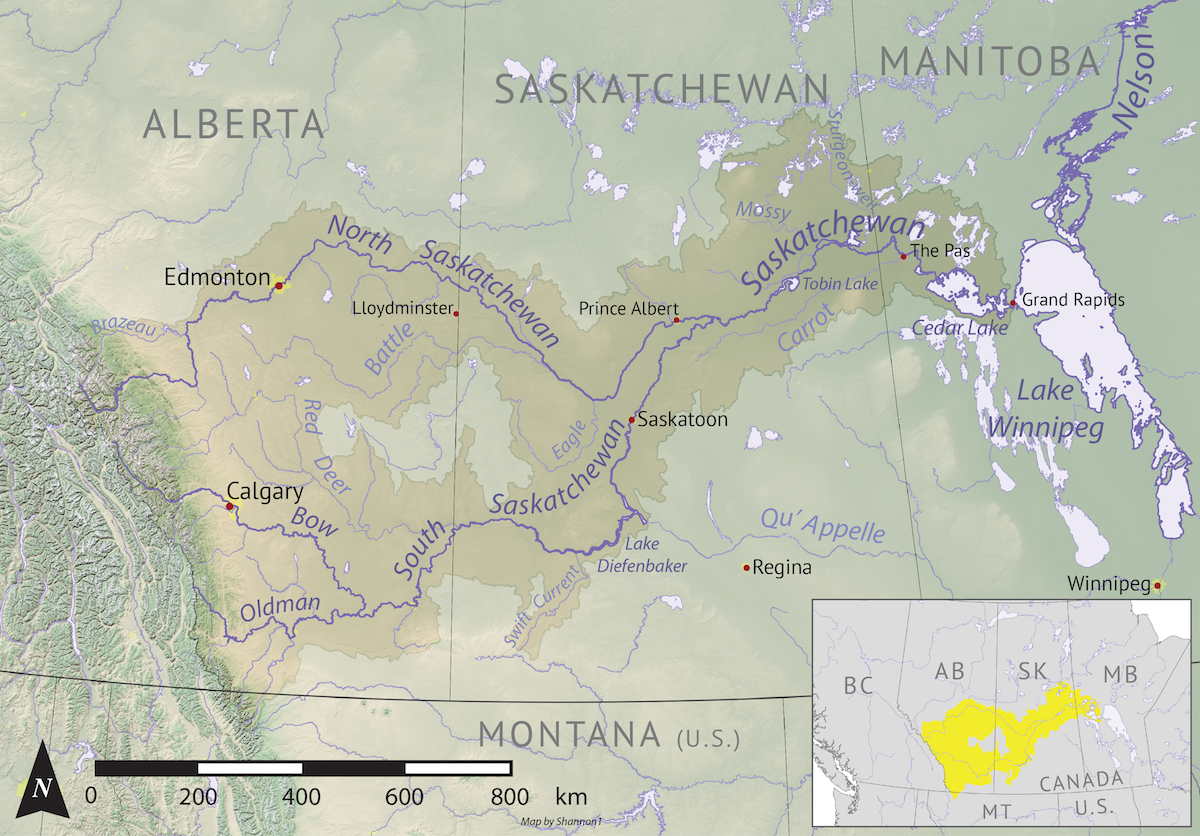 Map of the Saskatchewan River drainage basin. Data derived from NASA SRTM, Natural Resources Canada, Statistics Canada, US Geological Survey, Natural Earth.